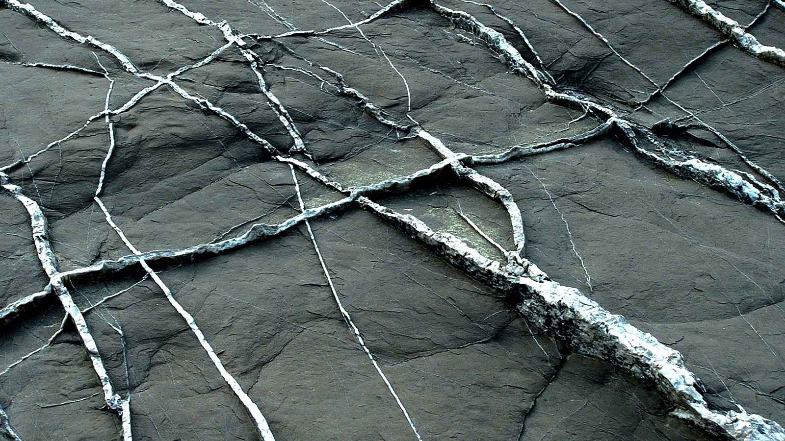 Rock, with white veins, at Imperia in Liguria, Italy